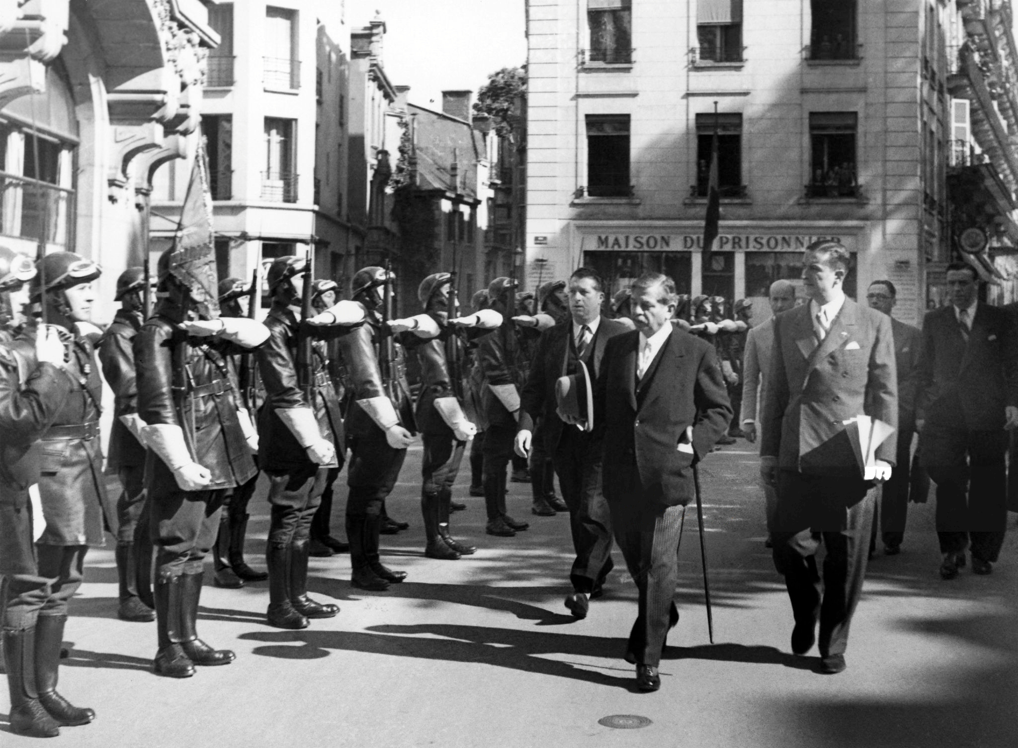 Council President Pierre Laval And The Secretary General Of The Vichy Police Rene Bousquet (Right) Inspecting Troops Of The Special Group Of Protection, Which Made Up The Guard Of Honor Of The Vichy Regime, In 1943